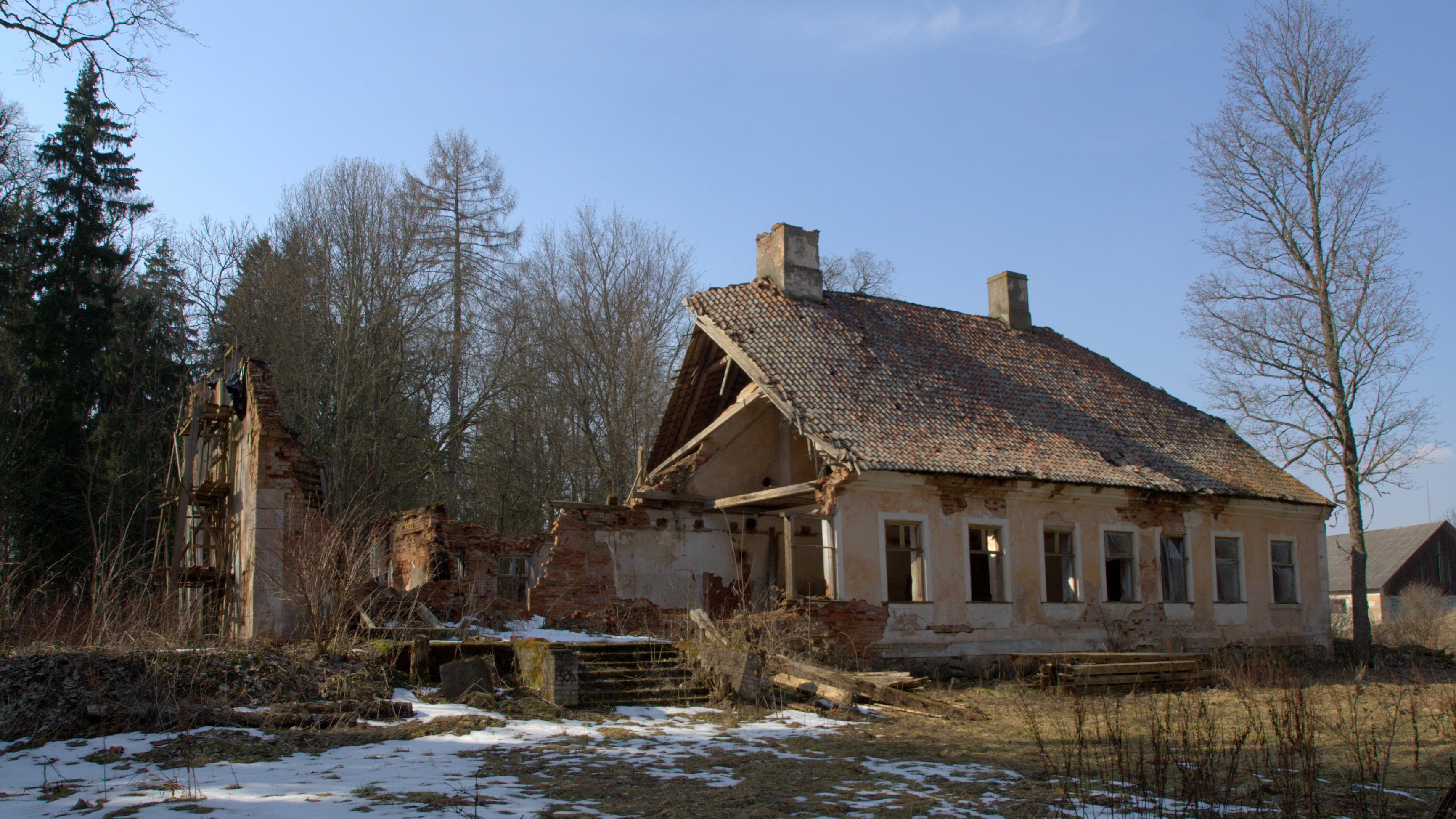 Main building of Joosu manor.